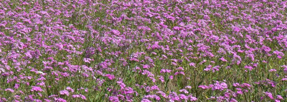 Phlox drummondii along north Florida highway